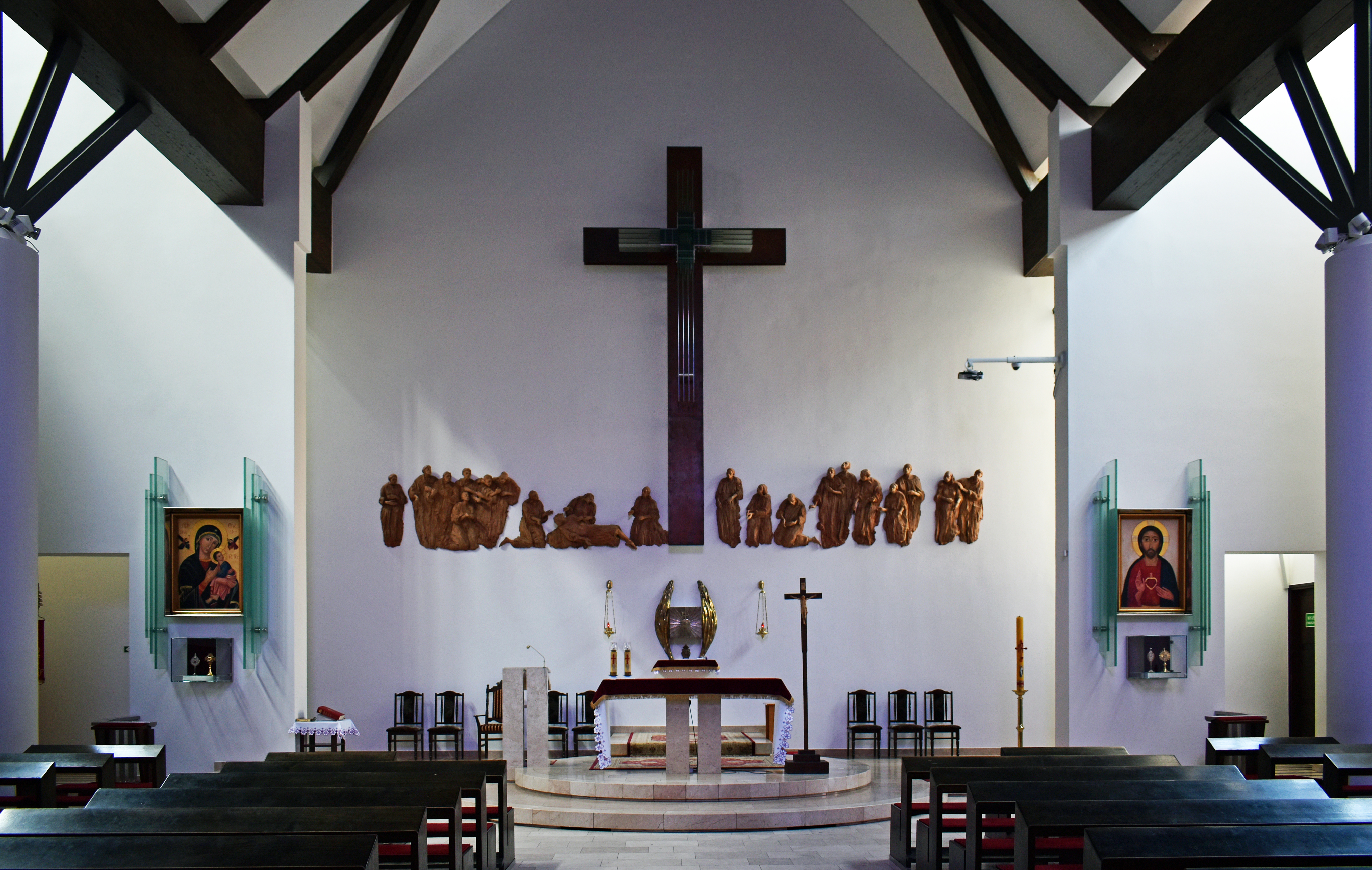 Church of the Sacred Heart of Jesus (interior), 2 Ludzmierska street, Nowa Huta, Kraków, Poland